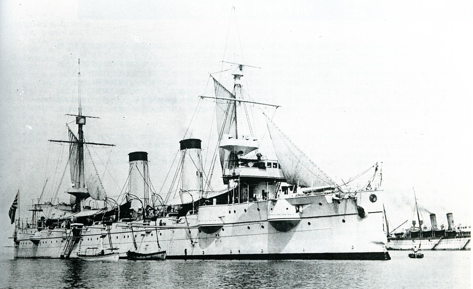 Japanese cruiser Kasagi in Kobe in 1899 (she did not arrive in Japan until 1899)